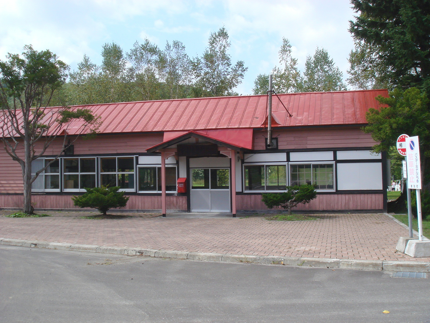 Former Kitami-Aioi Station building at Michinoeki Aioi in Tsubetsu Town, Hokkaido, Japan